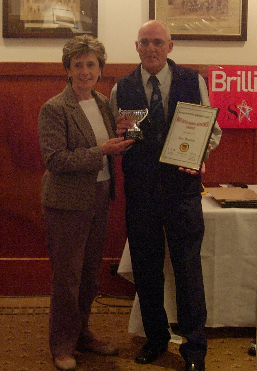 Frances Bedford MP presents an award.